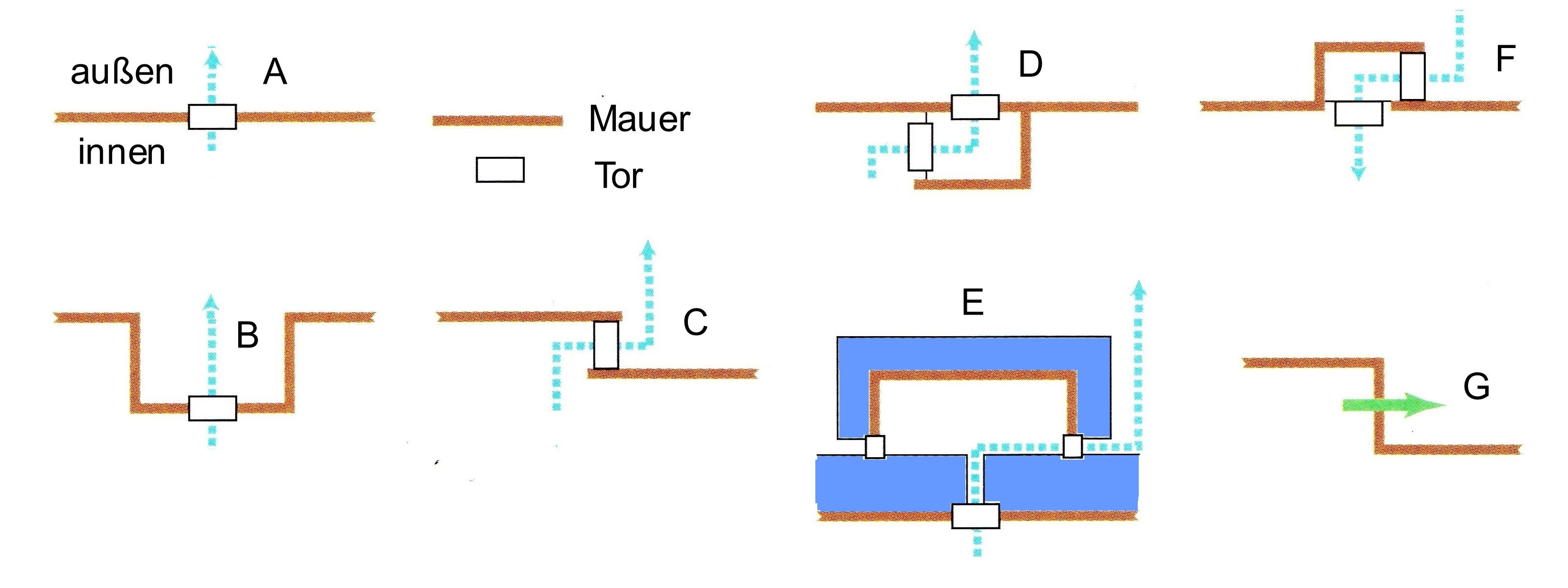 Layout of Japanese castle gates